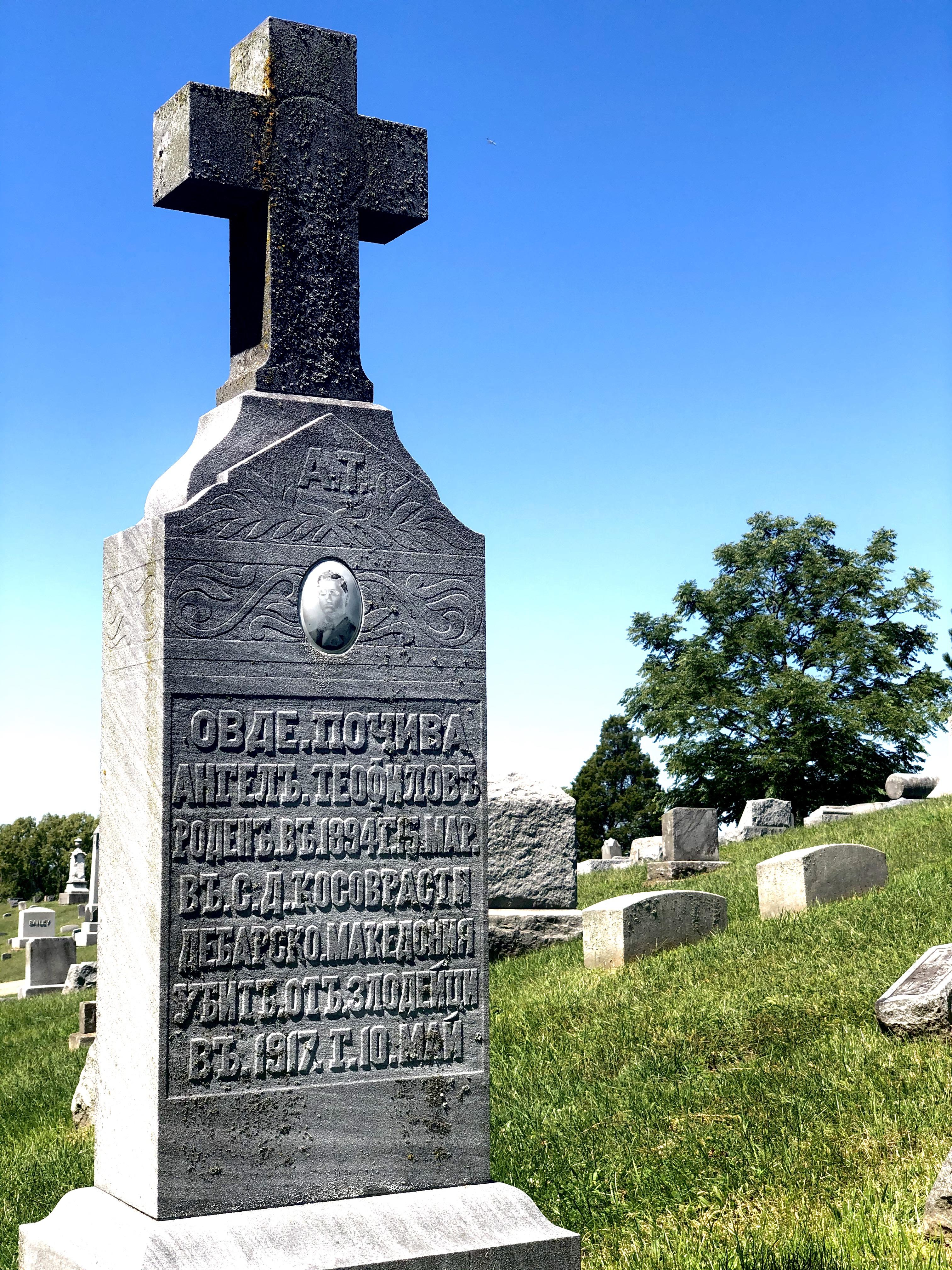 Grave of Angel Teofilov from Dolno Kosovrasti, Macedonia in the USA